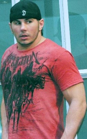 A picture I took of Matt Hardy at an autograph session in Cleveland Ohio.